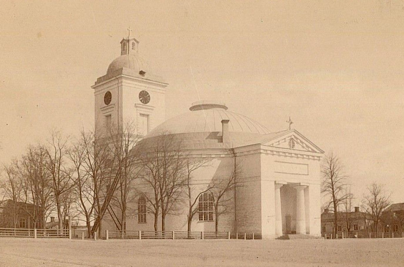 Hämeenlinna Church (Hämeenlinna, Finland) before renovation in 1891–1892